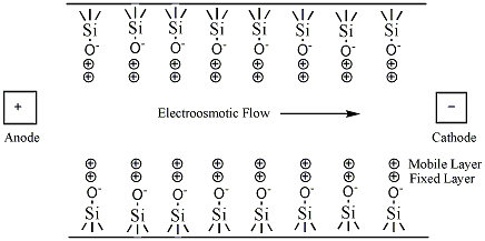 cappillary wall in CE